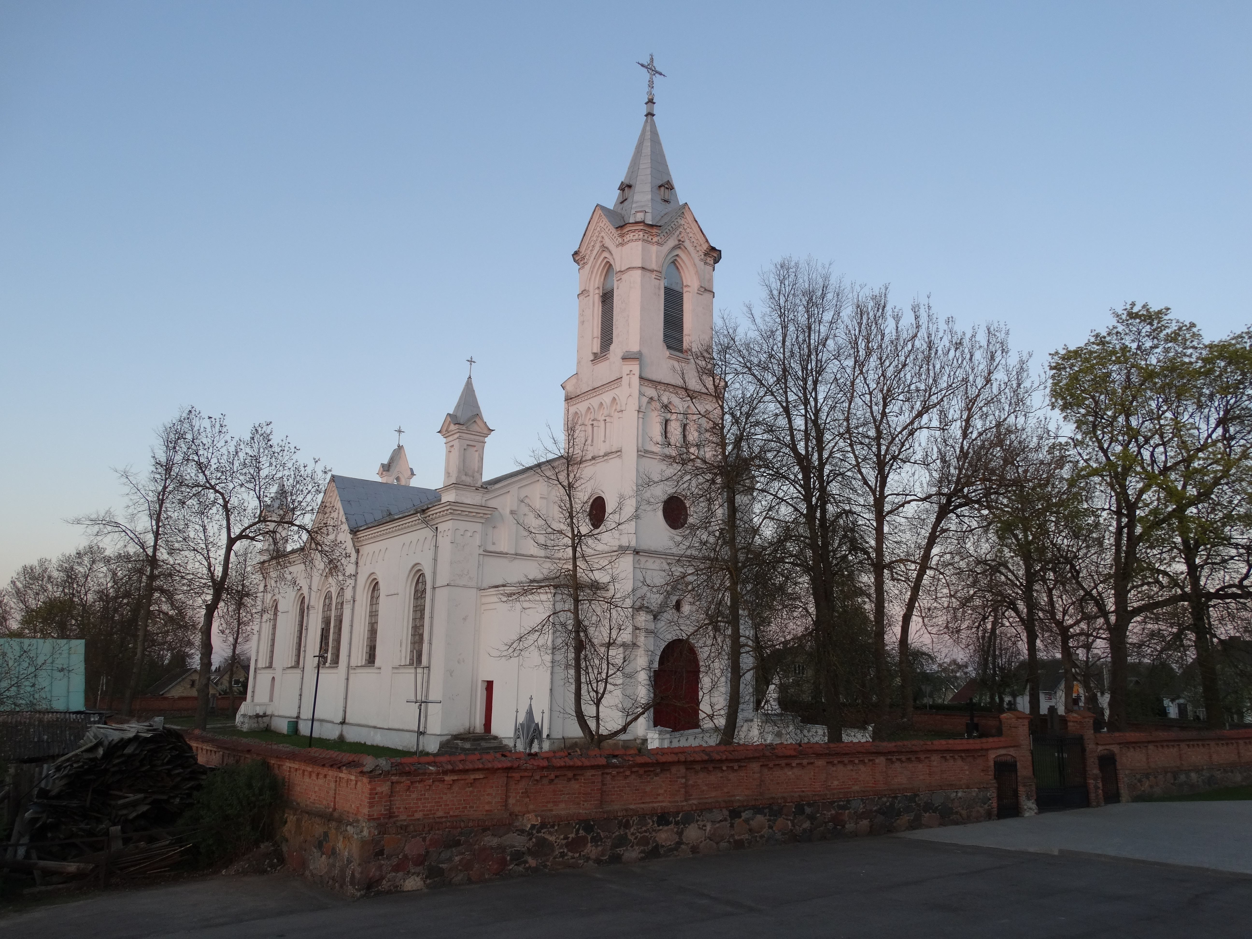 Baisogala, Catholic Church, Radviliškis District, Lithuania